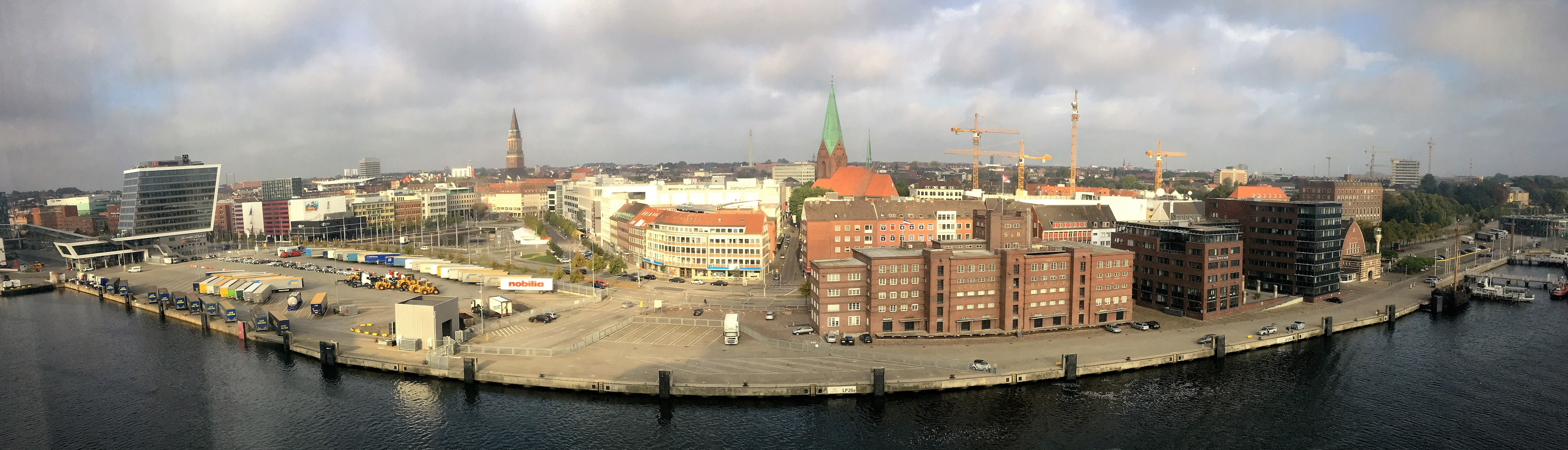 The center of Kiel, Germany, seen from the East towards West